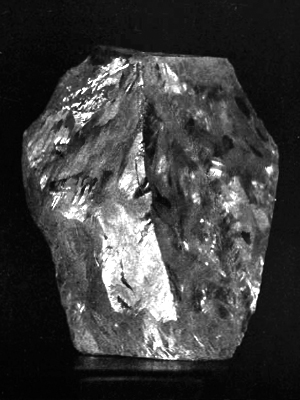 Photo of the Cullinan diamond the largest gem quality diamond ever found, in its rough form. It is 3,106.75 carats (621.35 g, 1.37 lb), about 10 cm (3.9 inches) tall in its longest dimension. It was found January 26, 1905 in the Premier mine, near Pretoria, South Africa